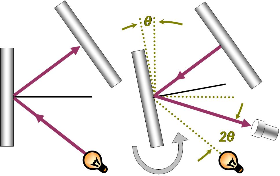 Foucault apparatus using rotating mirror to find speed of light